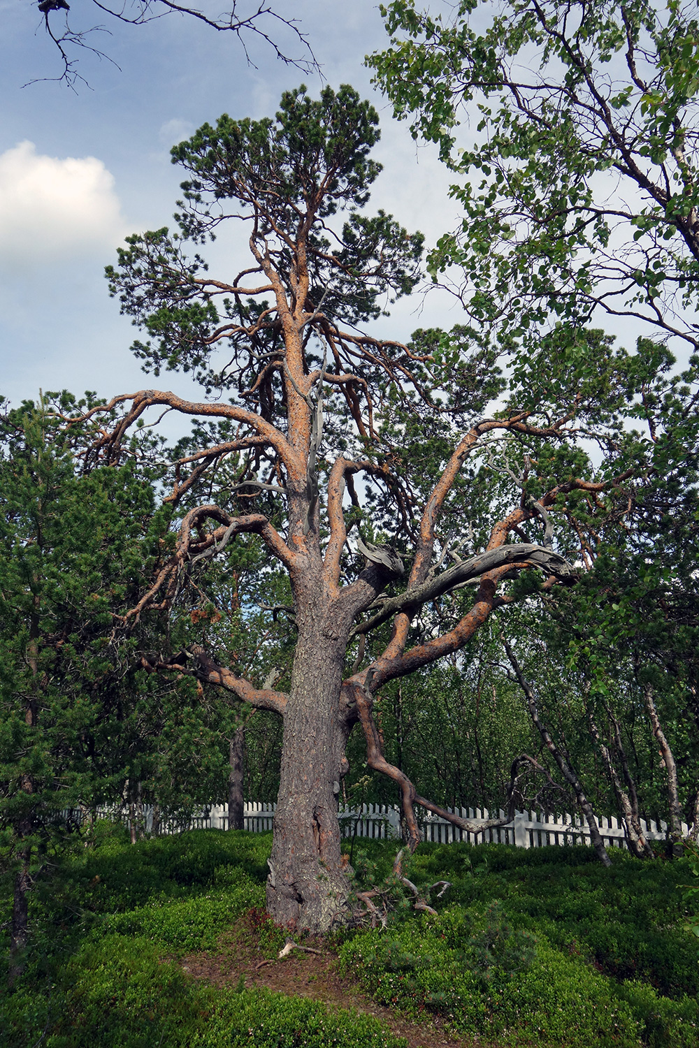 Sacrificial pine on the old church place in Markkina, Enontekiö, finnish Lapland.